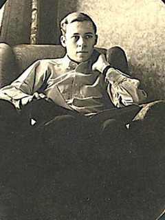 Edgar de Evia as a student taken by the subject on a tripod. I own all rights to the photographs from the Estate of Edgar de Evia as executor and legetee.